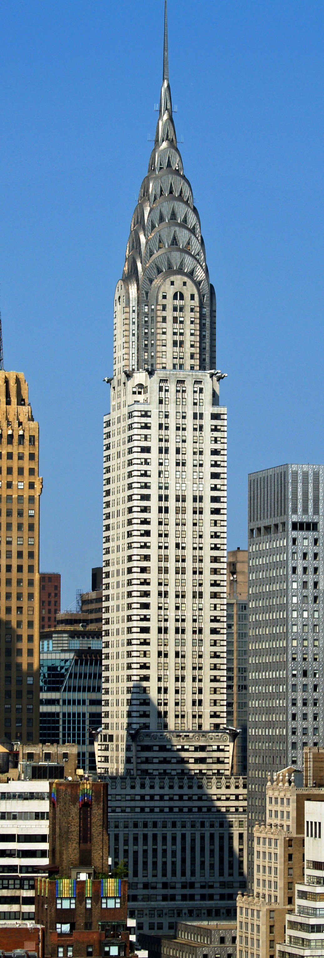 Chrysler Building Image touched up by User:Overand - Original description below.